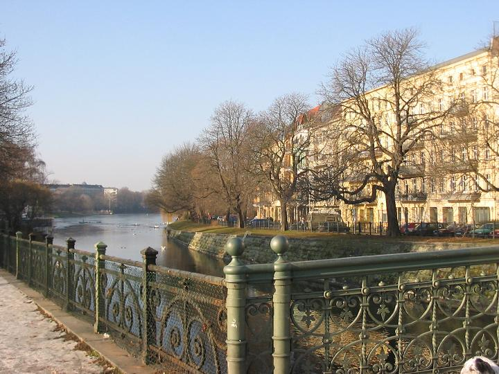 Landwehrkanal in Berlin-Kreuzberg. Urbanhafen at Fraenkelufer, view from Admiralbrücke.